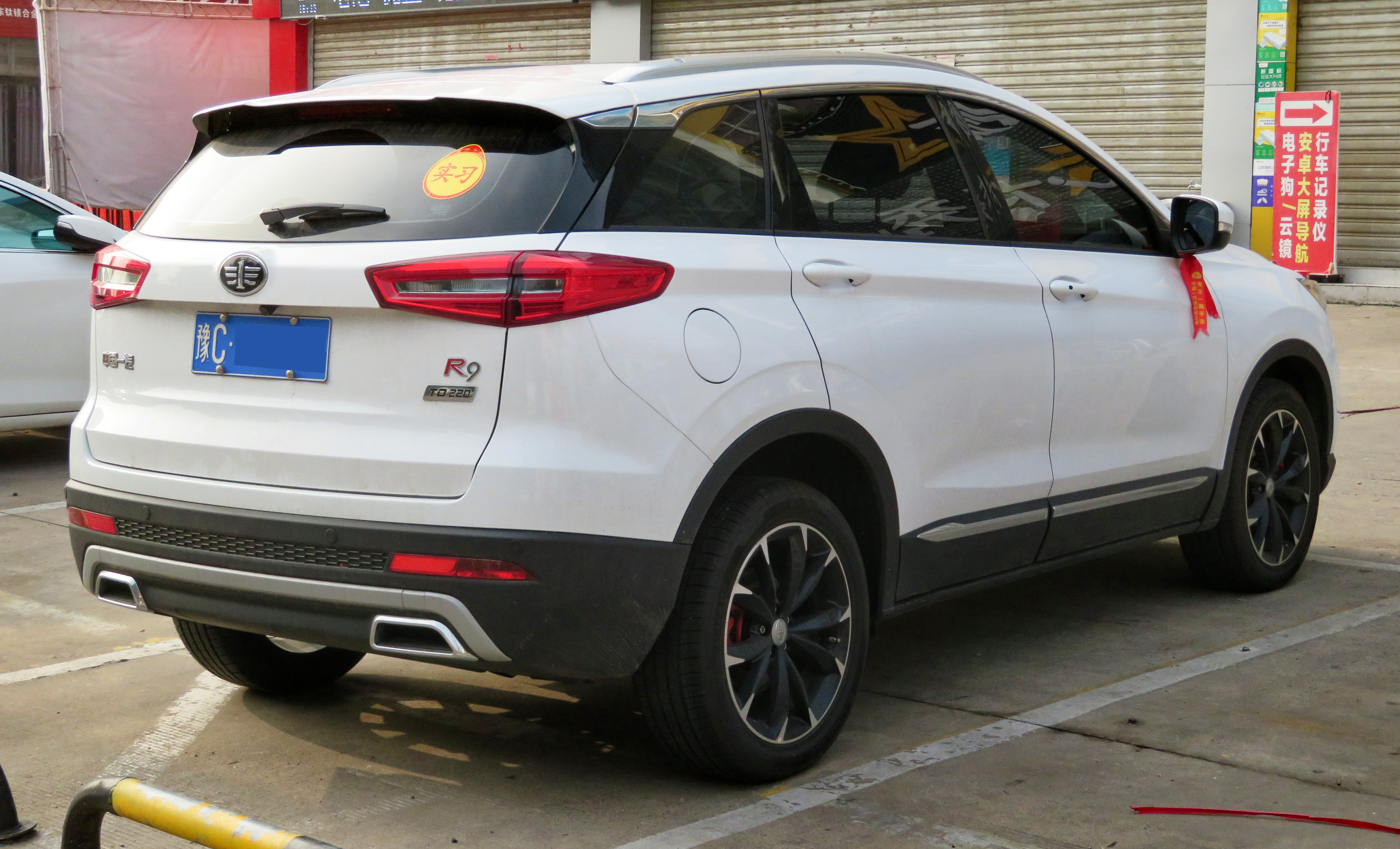 A 2018 FAW-Jilin Senia R9 photographed at Guanlinzhen, in Luoyang, Henan province, China